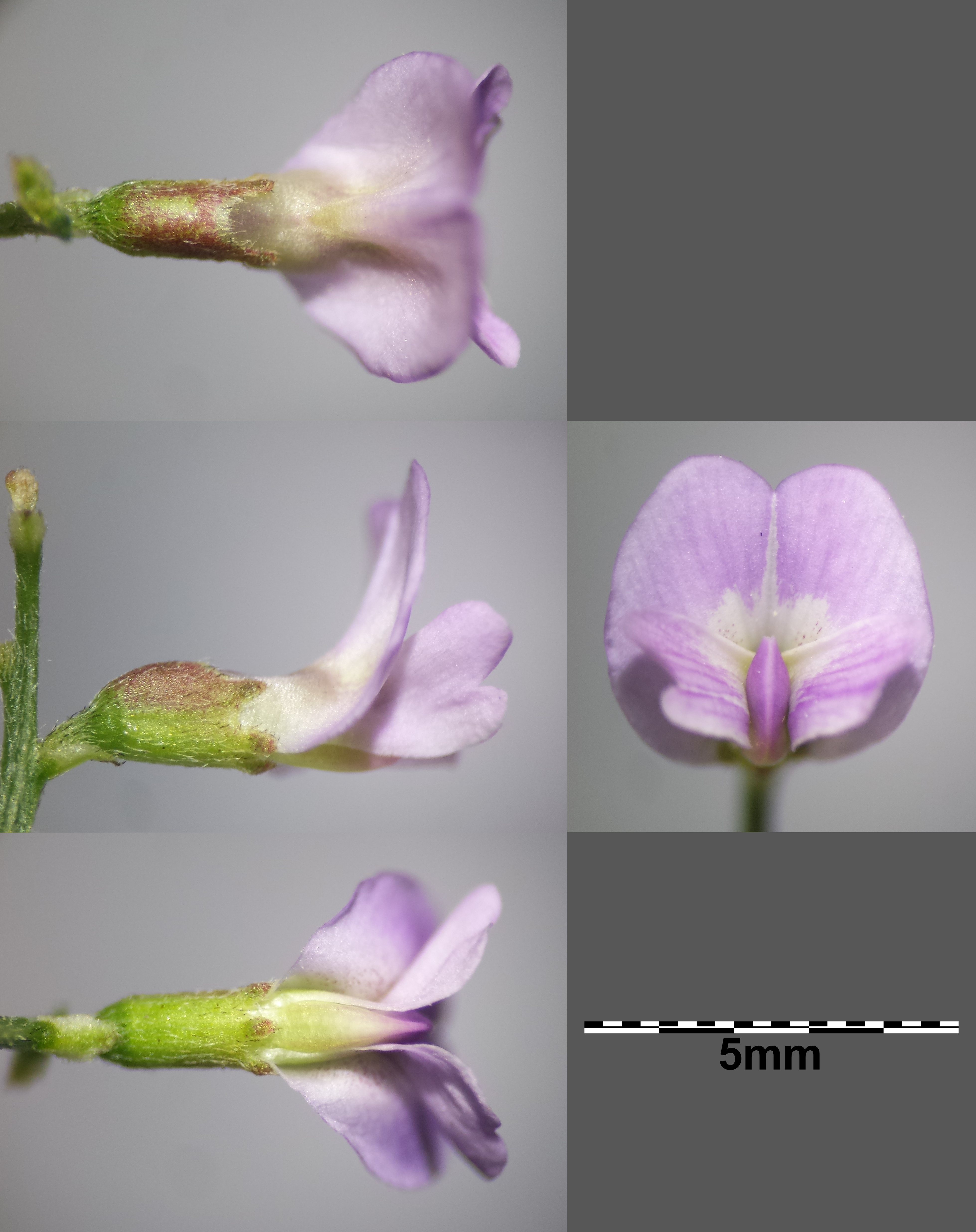 Flower Taxonym: Astragalus austriacus ss Fischer et al. EfÖLS 2008 ISBN 978-3-85474-187-9 Location: Kalvarienberg southwest of Pillichsdorf, district Mistelbach, Lower Austria - ca. 173 m a.s.l. Habitat: semi-dry grassland